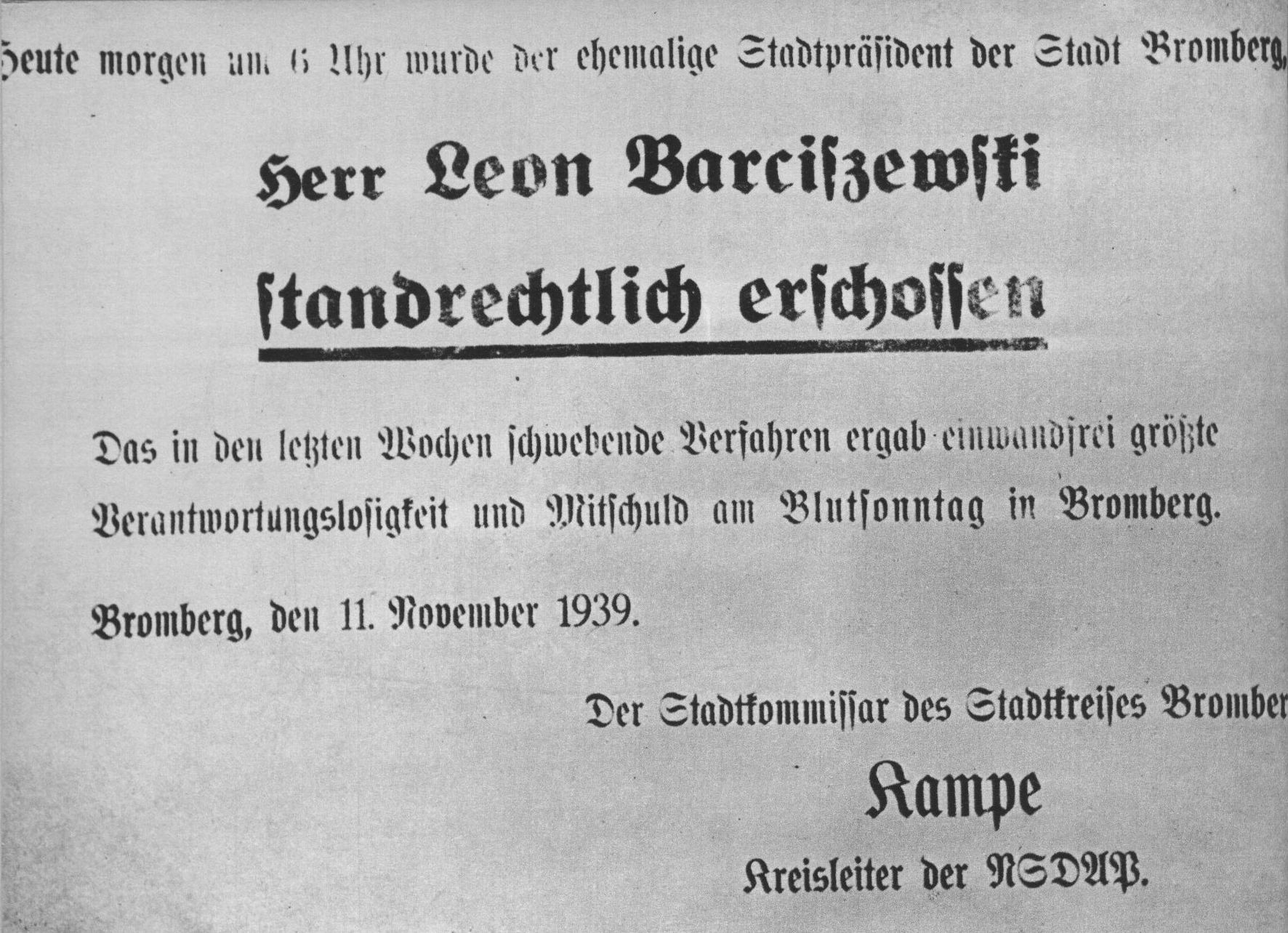 German announcement in occupied Polish city Bydgoszcz, signed by Mayor and Nazi Party county leader – Werner Kampe, informing about the execution of the last prewar Polish president of Bydgoszcz – Mr. Leon Barciszewski (11th November 1939).